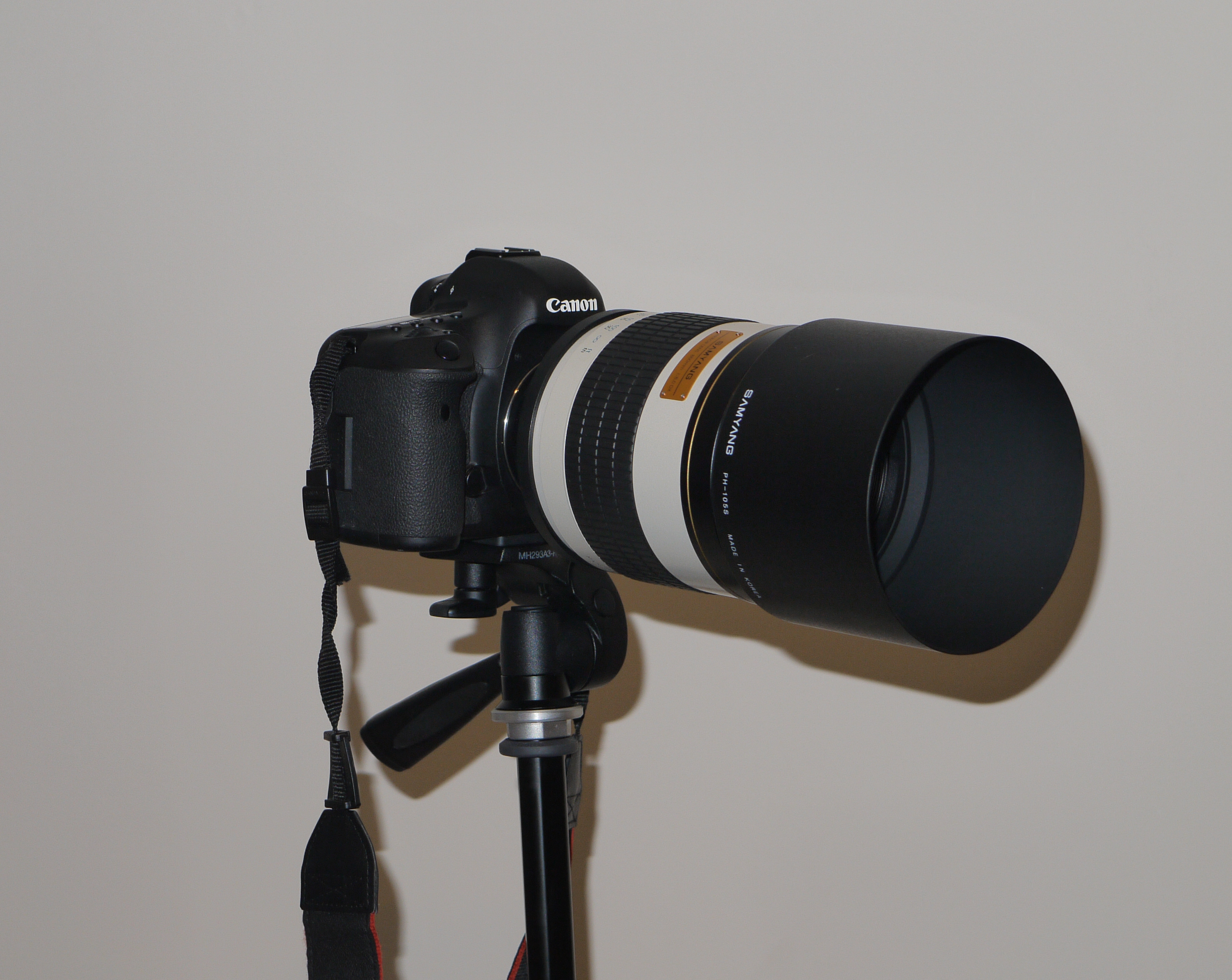 Photo of a samyang 800mm F8 mirror lens with lens hood on a Canon EOS 5D Mark III